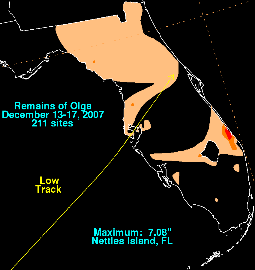 Storm total rainfall map of Tropical Storm Olga in Florida during December 2007.